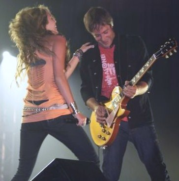 Jamie Arentzen and Miley Cyrus perform at Atlantis Bahamas. This is a cropping, shrunken, and slightly retouched version of the original image.